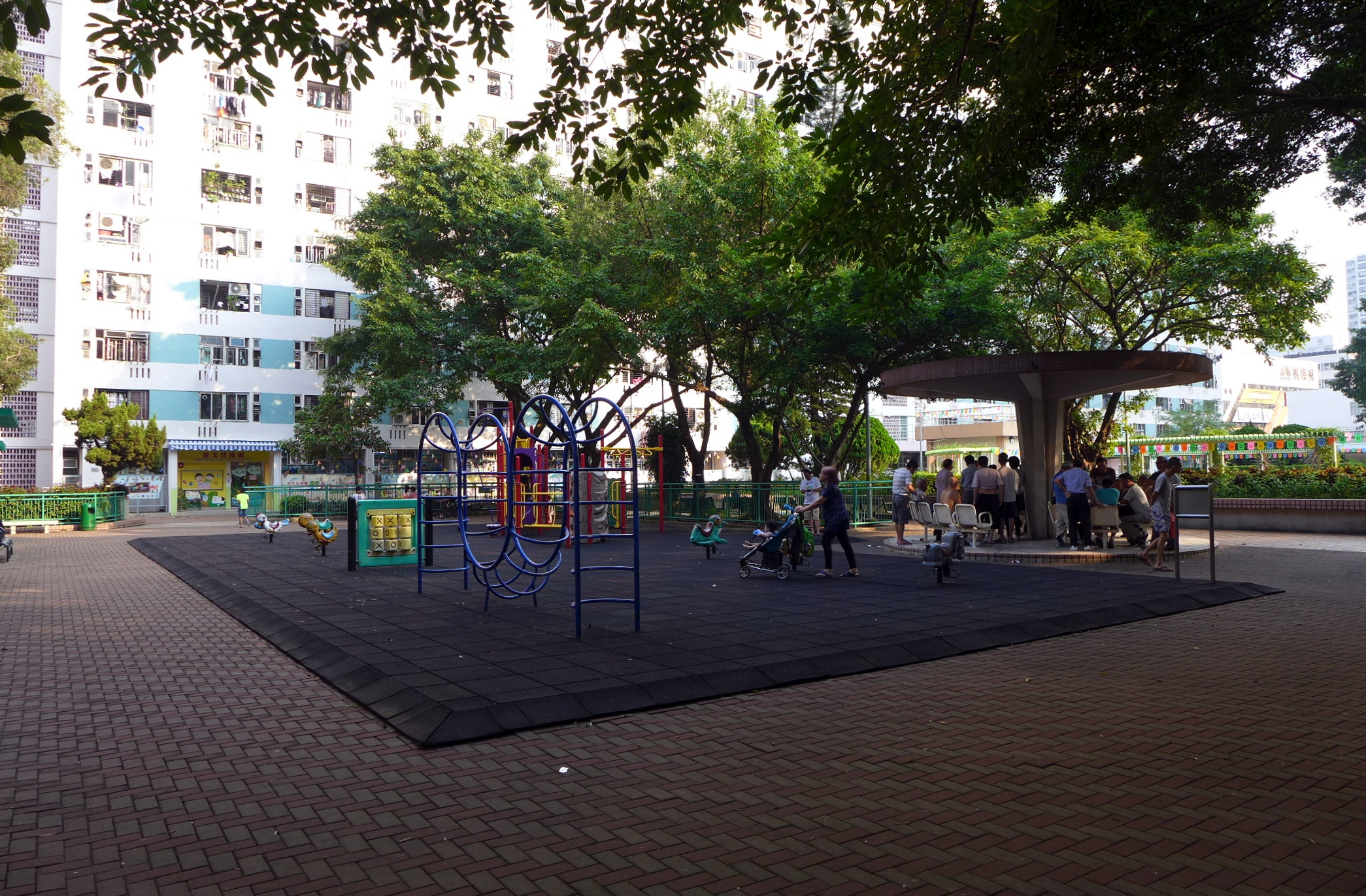 Lek Yuen Estate Playground